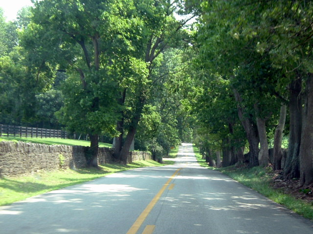 A narrow country road in the Bluegrass region of Kentucky. Taken by the uploader, Censusdata; all rights released.